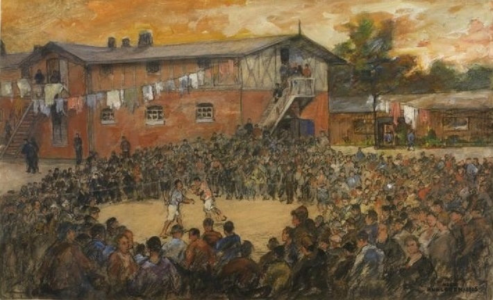 Ruhleben Prison Camp - slaves of the ring image: A boxing match in progress outdoors in a prison camp. The two boxers are surrounded by a large crowd of prisoners, who fall a thick circle around them. The fight takes place outside a two storey red brick buiding, which has a washing line suspended from it.